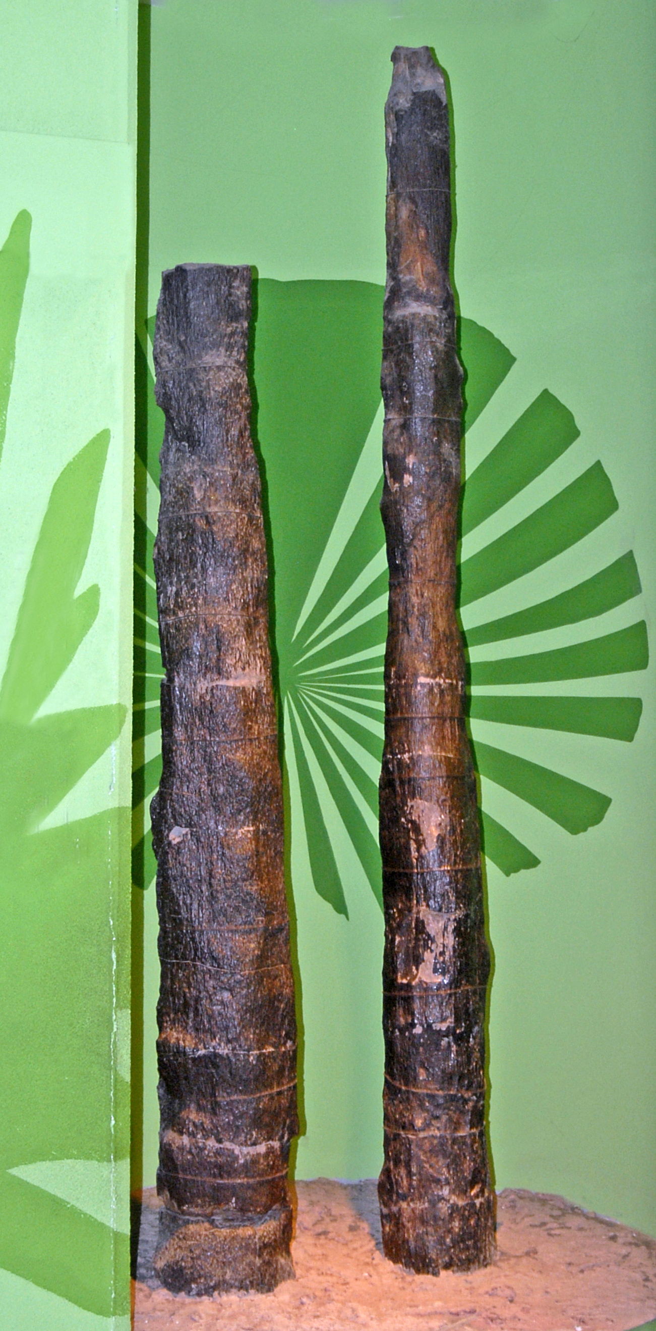 Fossil trunks of Palmoxylon from Quaternary of Lybian Sahara, on display at the Museo Civico di Storia Naturale di Milano